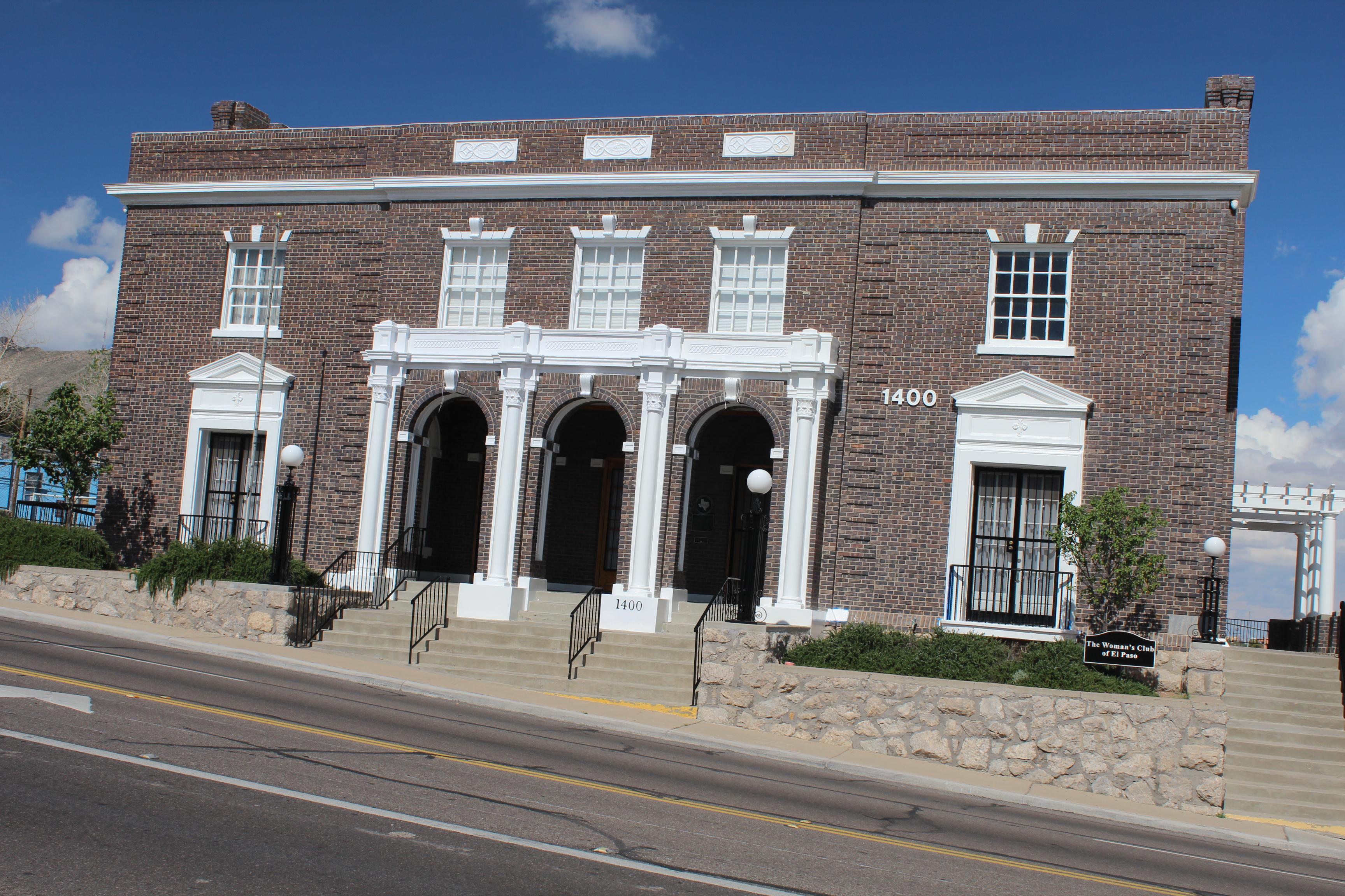 Women